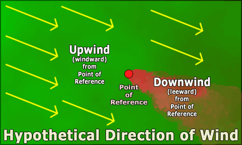 Graphic example showing definitions of upwind (windward) and downwind (leeward) terms.